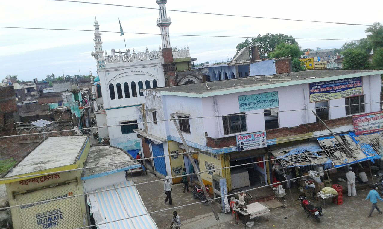 Ikauna town Ghosi Mohalla